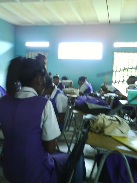 inside the ascot high school.